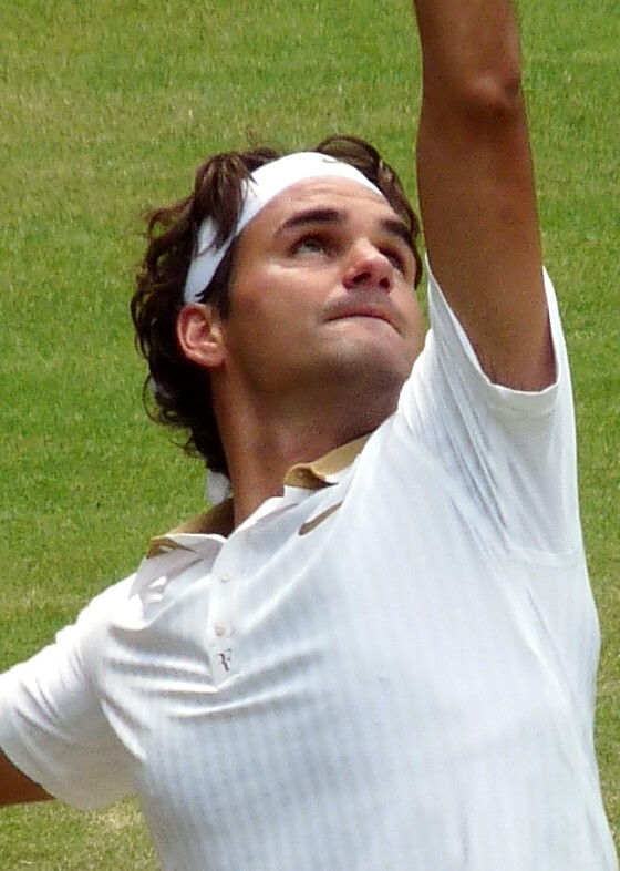 I'm quite chuffed with how the camera coped, considering we were quite far back and I was lacking in tripod!